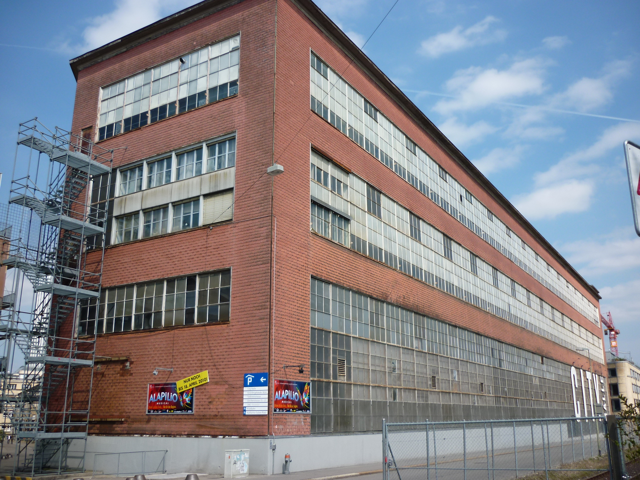 Sulzer Area, Winterthur ZH, Switzerland